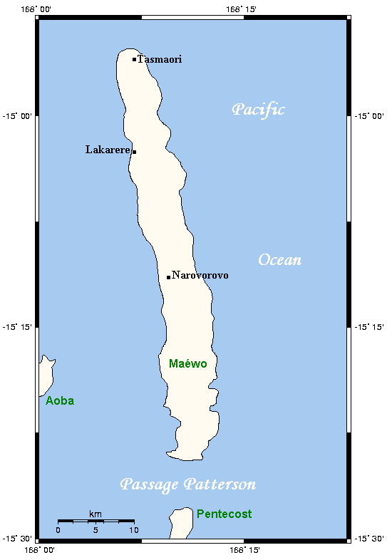 Map of Maéwo Island in Vanuatu in English.